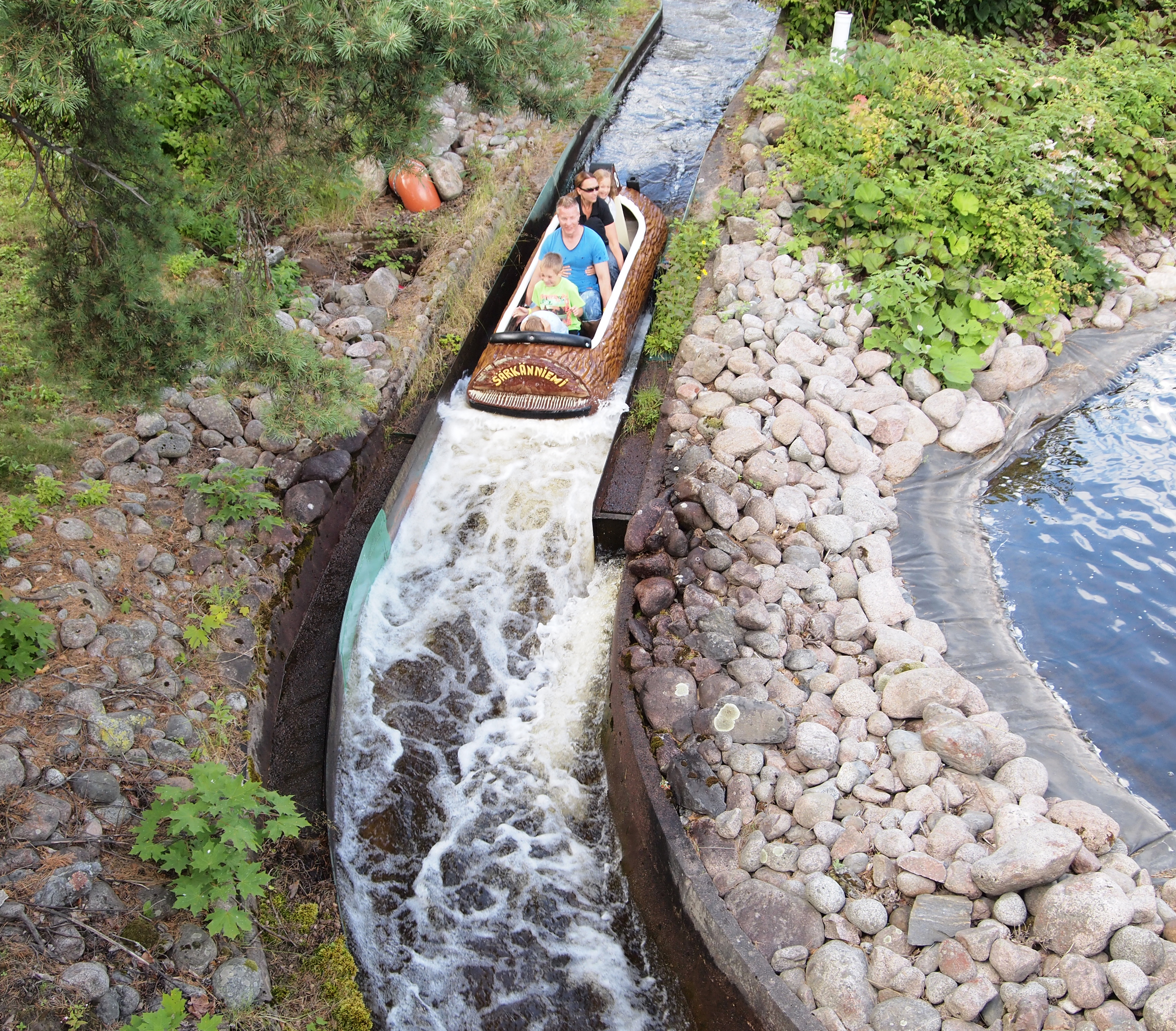 Amusement ride Tukkijoki in Särkänniemi, Tampere. This photograph was taken with a Olympus E-PL1.